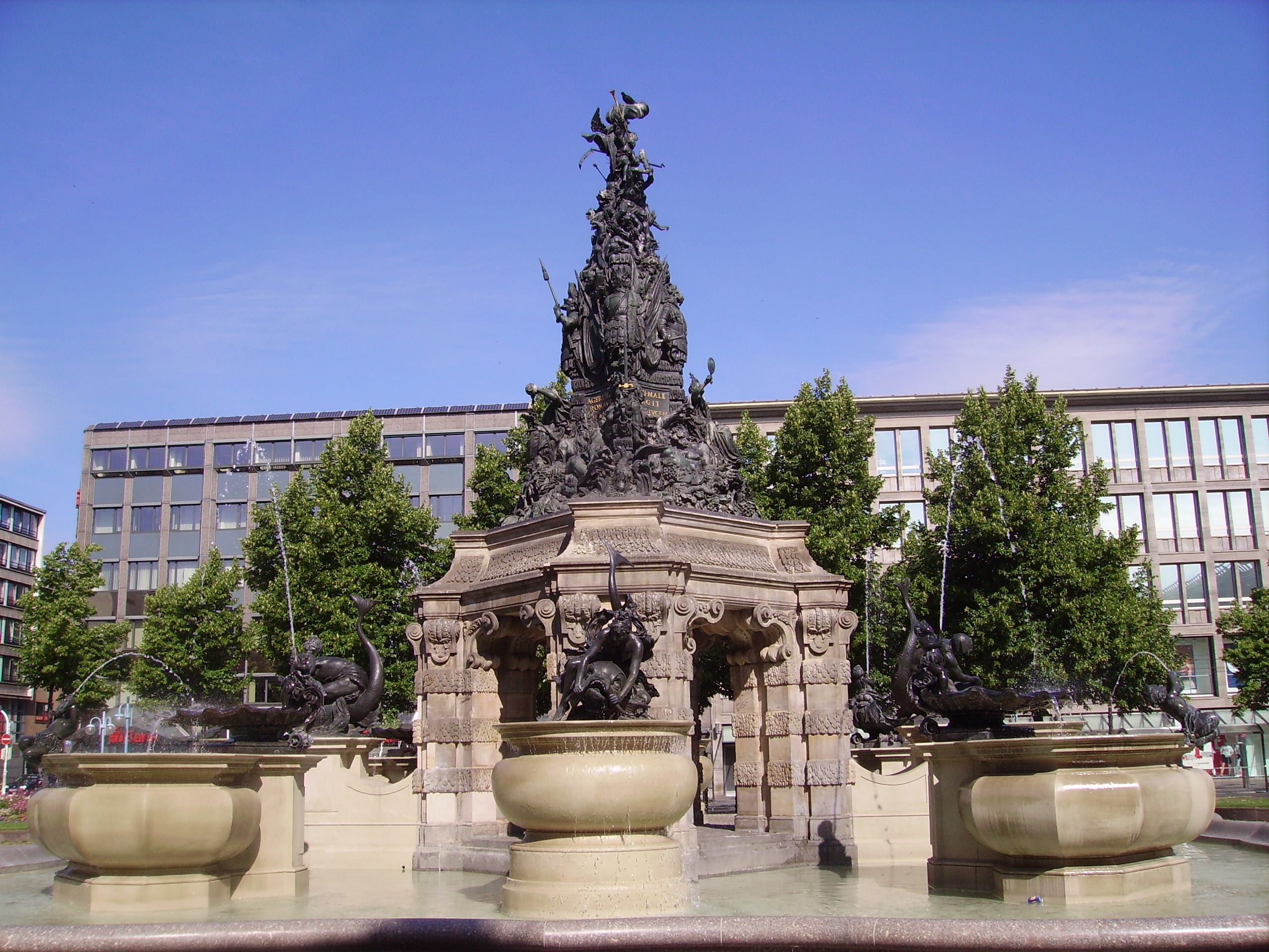 fountain in Mannheim, Germany